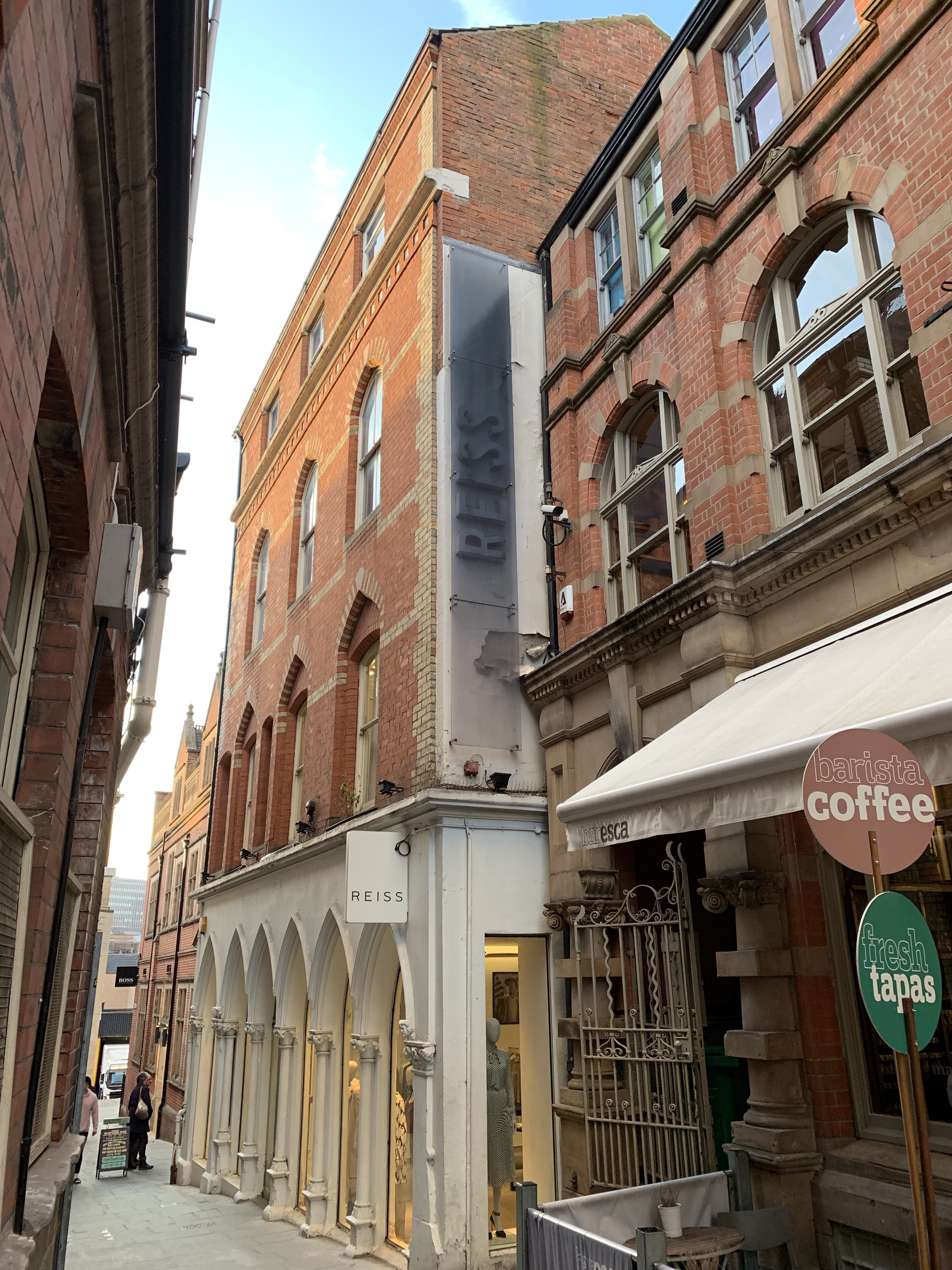 Office building. c1870, altered late C20. Red brick with rendered ground floor, ashlar and yellow brick dressings and slate roof. One gable stack. Gothic Revival style.